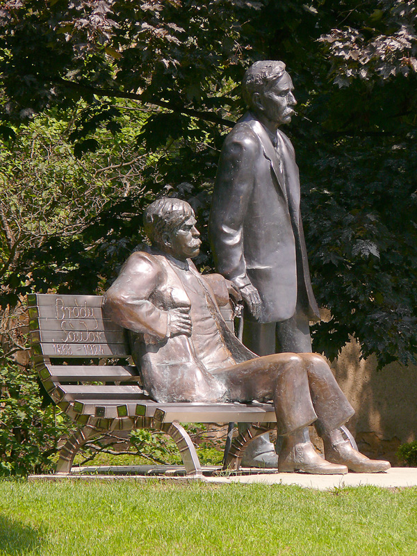 Statue of Hungarian writers Sándor Bródy and Géza Gárdonyi in Eger